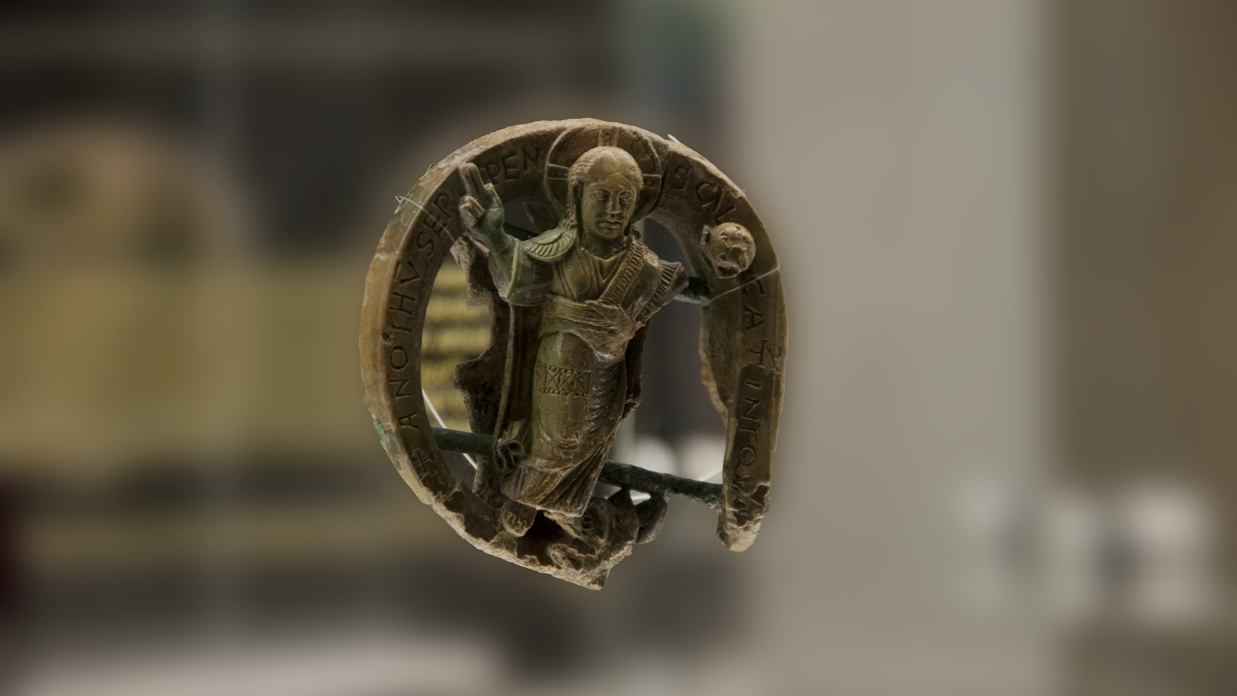 Ename, Belgium - Provinciaal Archeologisch Museum - medieval crozier (ivory) of an abbot